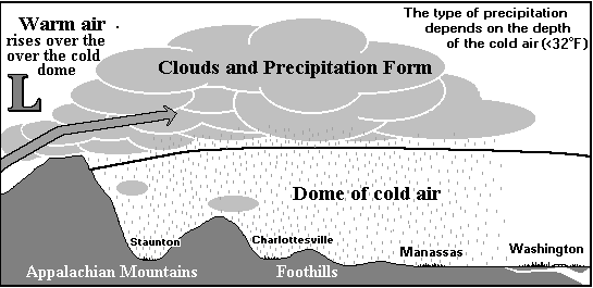 This image shows a situation which occurs when warm air ahead of an oncoming storm system overrides cool air trapped east of a mountain range - cloudiness and rainfall